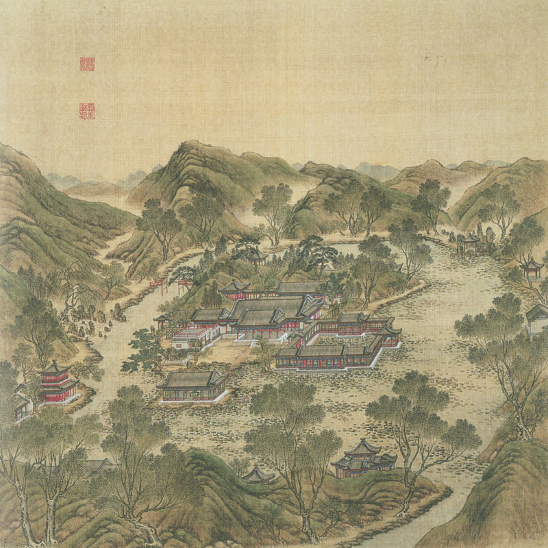 Lianxi lechu A variety of halls, pavilions, and bridges suspended over a large lotus pond